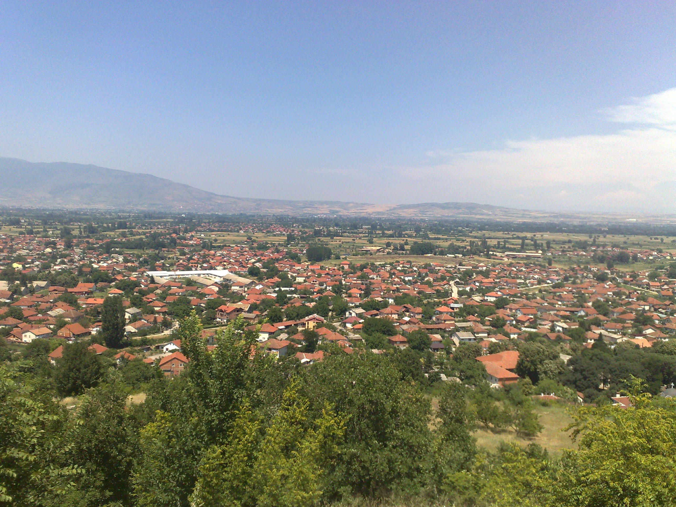 Drachevo,Macedonia